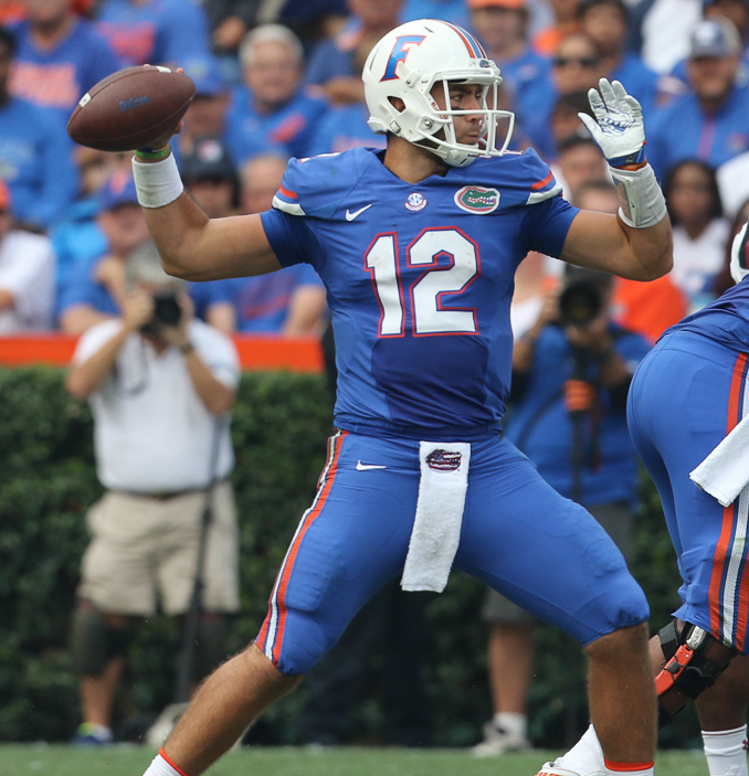 Photo by C.J. Driggers